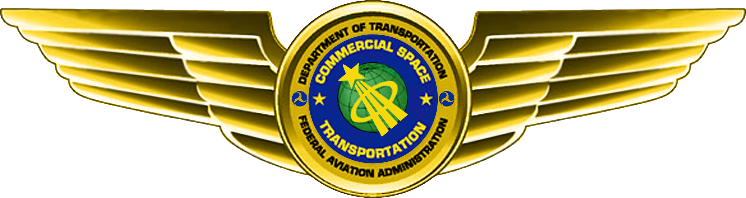 United States Federal Aviation Administration Commercial Astronaut Wings.